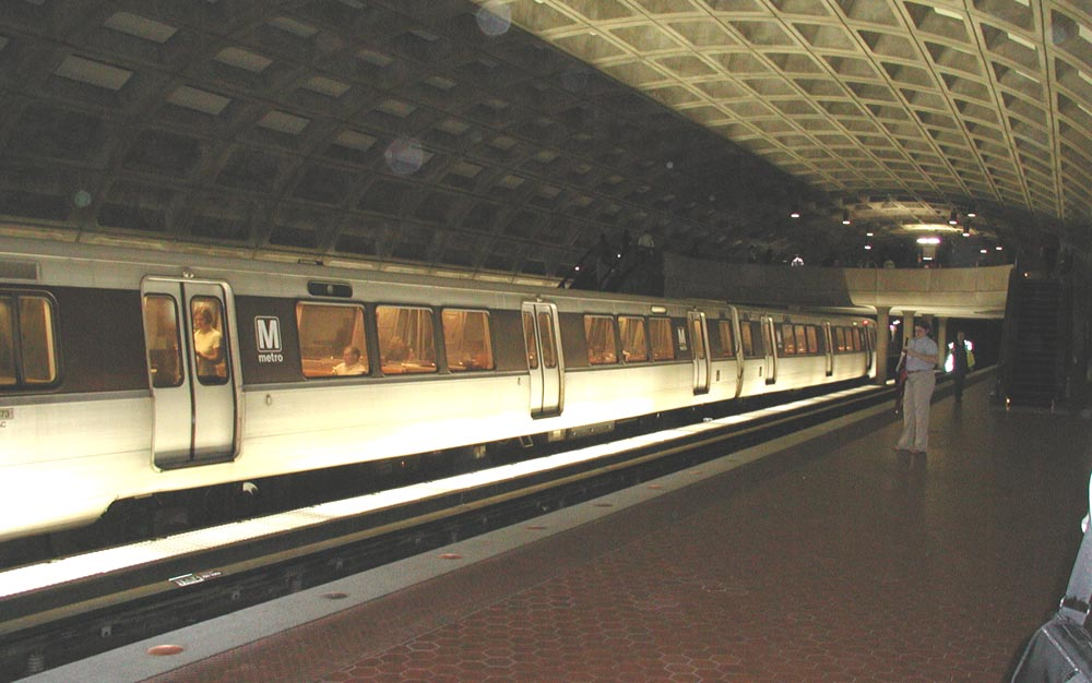 Train of the Washington DC Metro